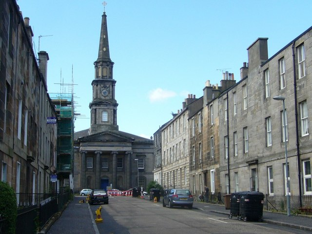 North Leith Parish Church, designed by William Burn, was erected in 1816. Viewed along Prince Regent Street